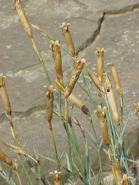 Species: Dianthus caryophyllus Family: Caryophyllaceae Image No. 1